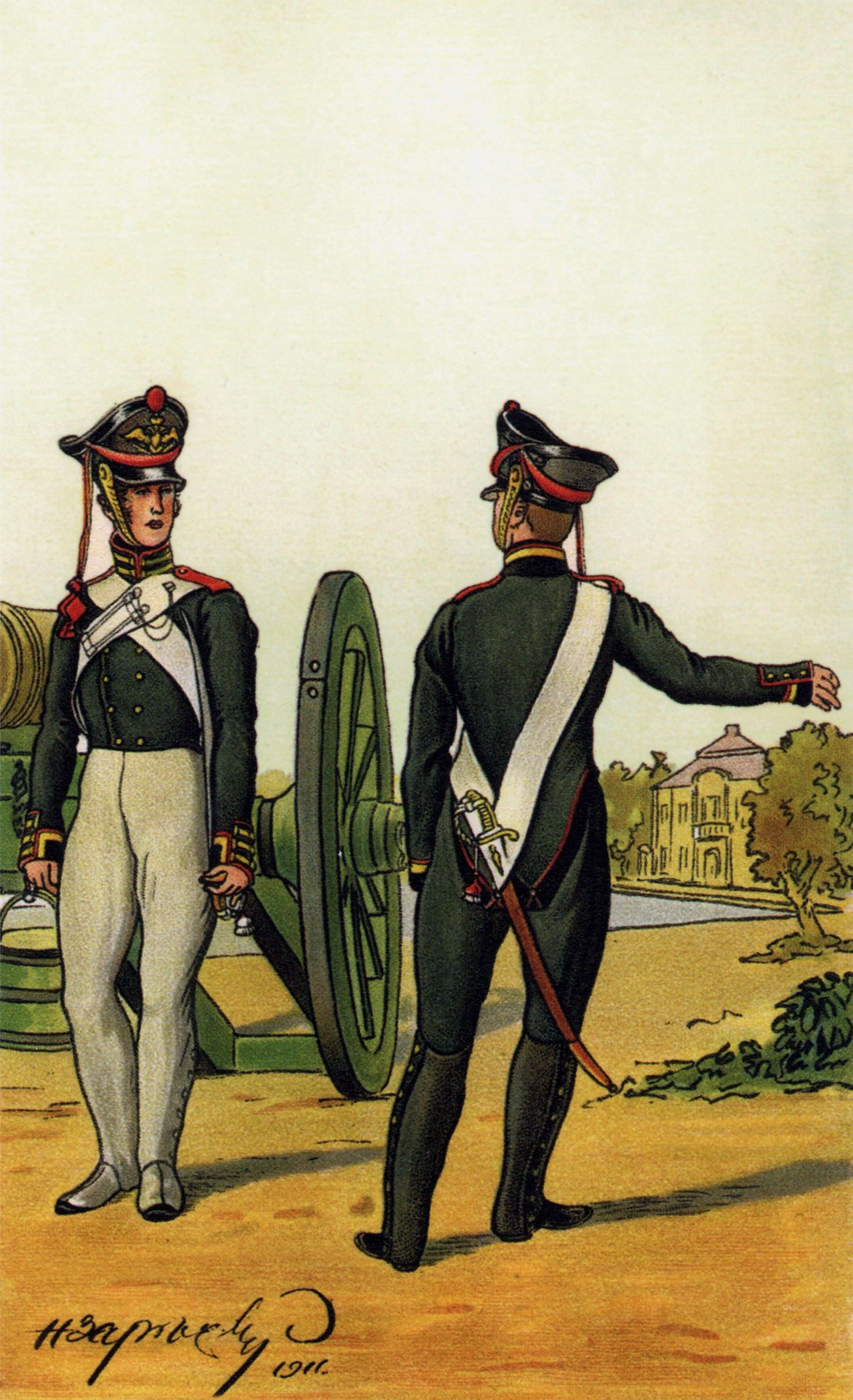 From the series The Russian Army in 1812.